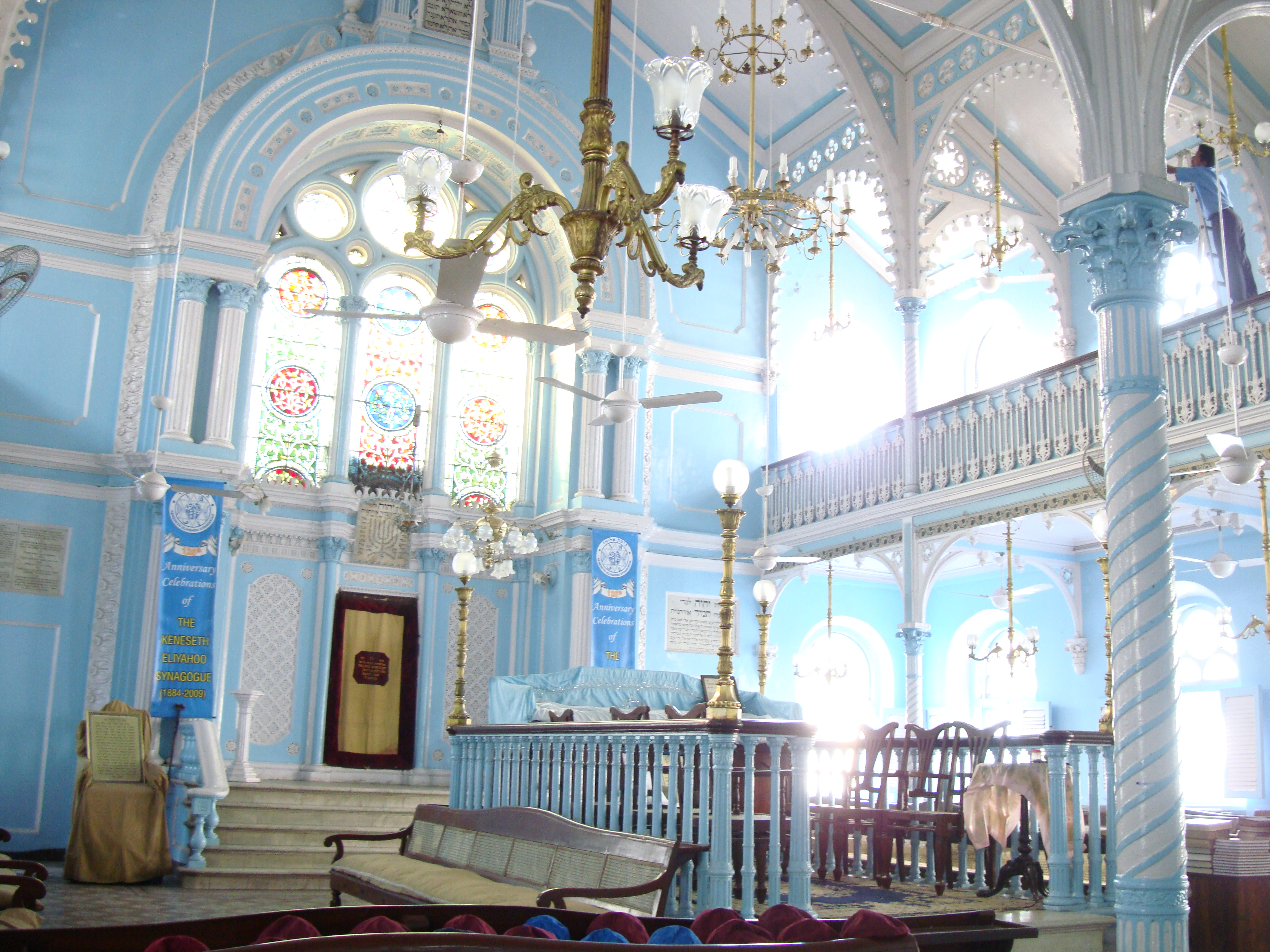 Kenesseth Eliyahu Synagogue, Colabaever luminous with extended exposure.